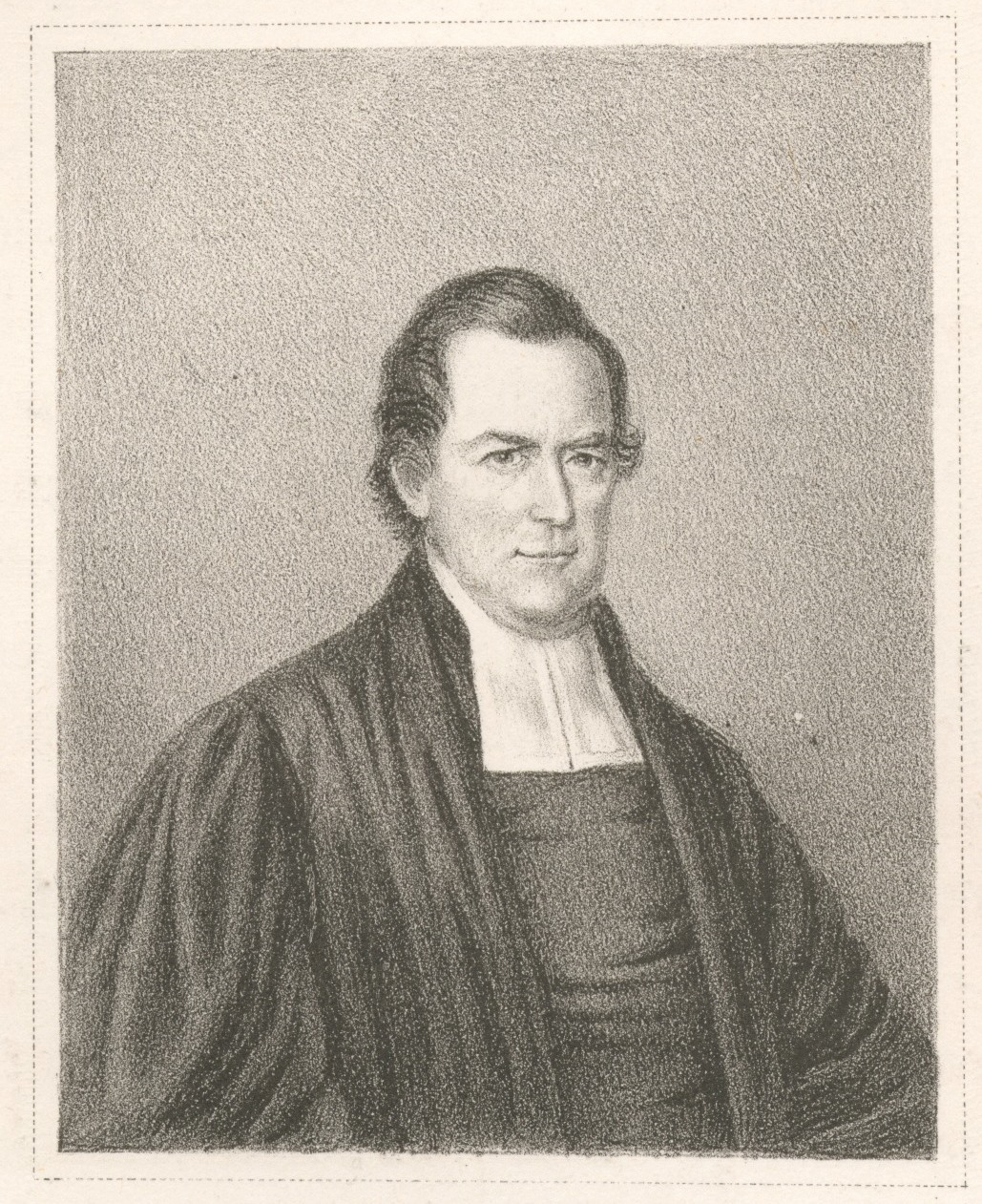 Dutch preacher & theologian Gerardus Kuypers (1722-1798)